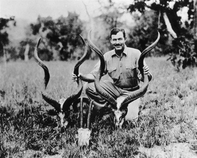 American author Ernest Hemingway poses with kudu and sable skulls while on safari in Africa, 1934.